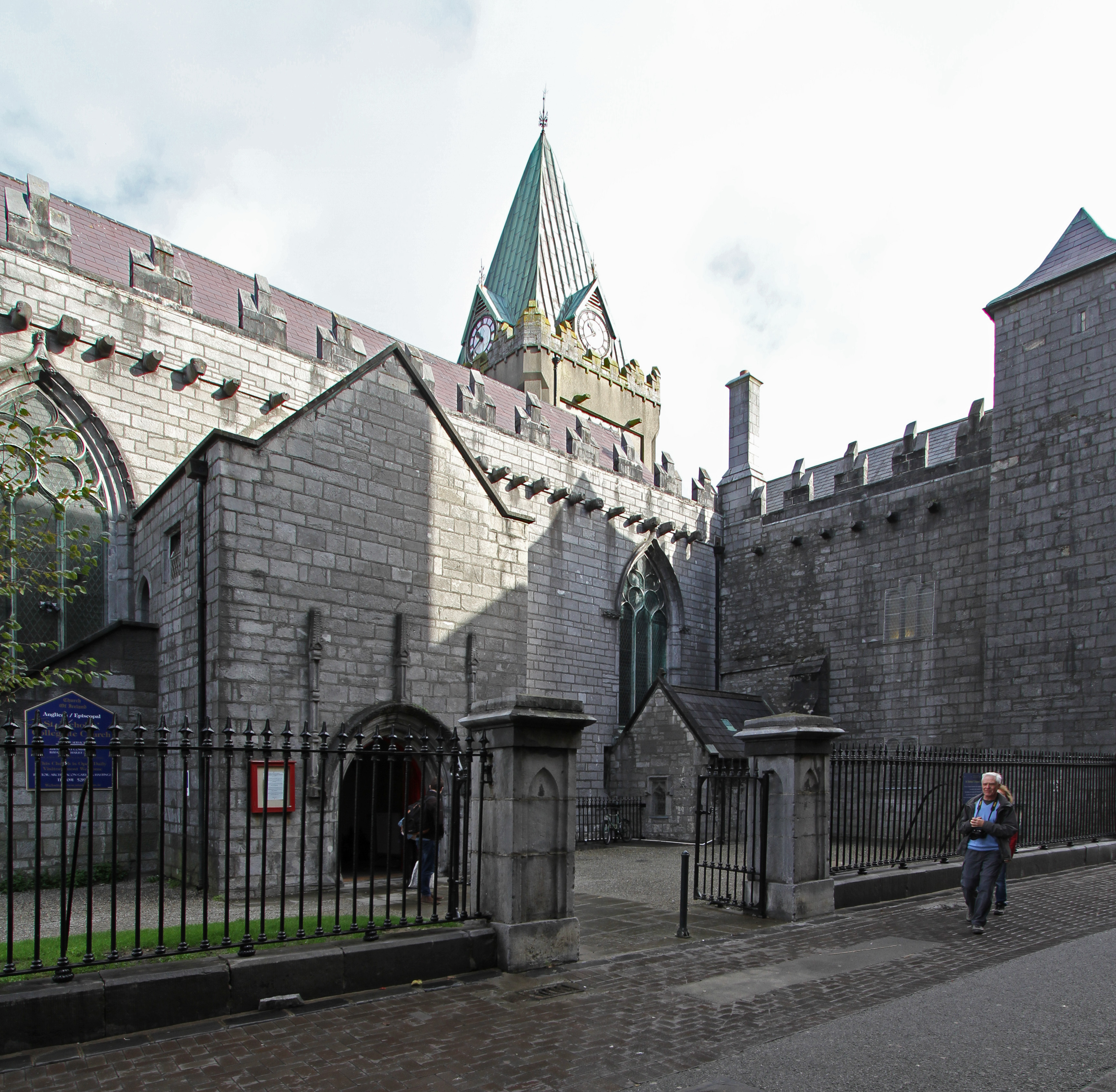 St. Nicholas' Collegiate Church (Galway).